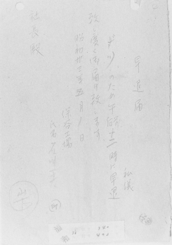 The notice for leaving early of Kazuo Ishikawa, 1958.